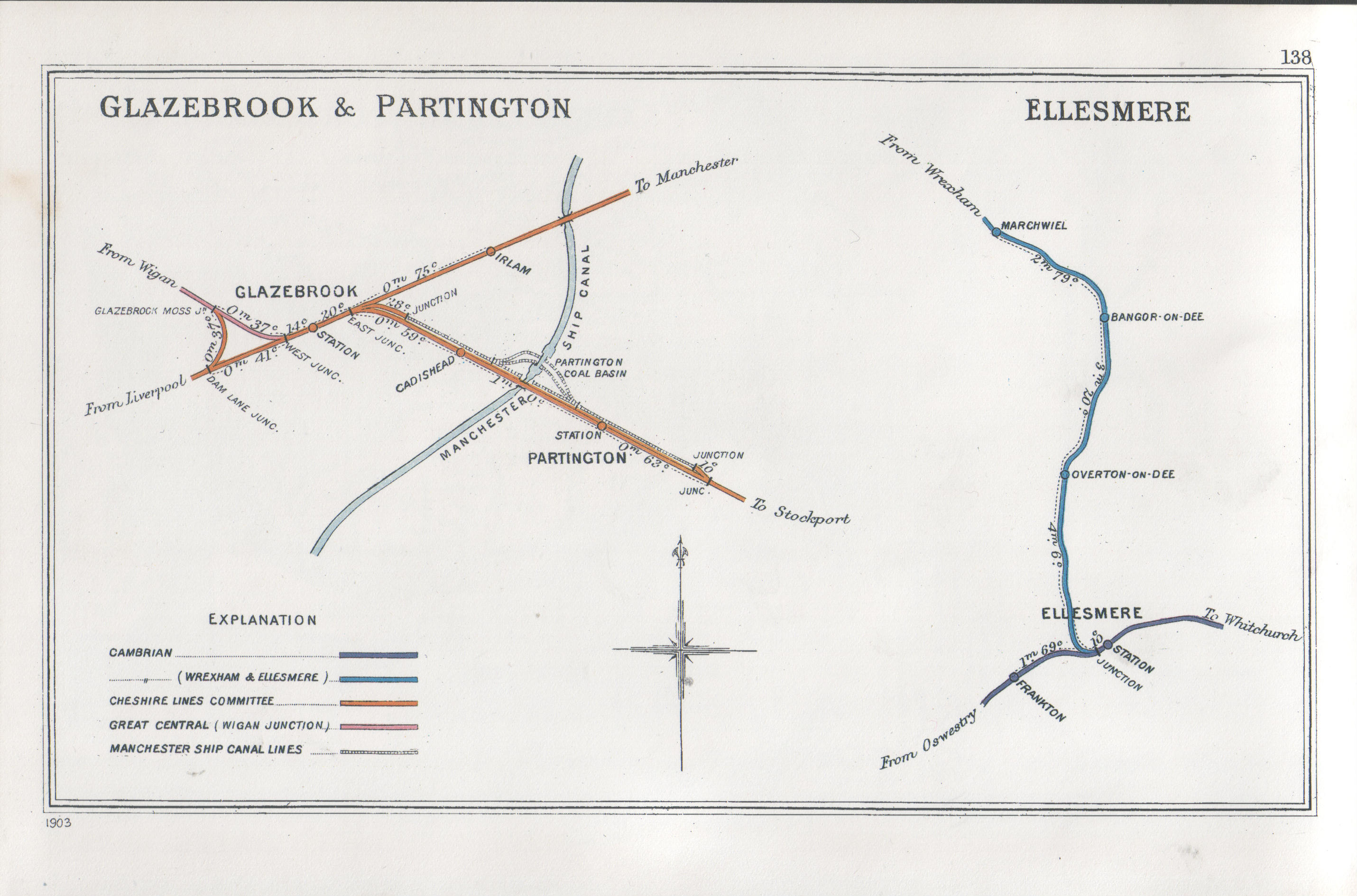 Railway junctions around Glazebrook & Partington; Ellesmere